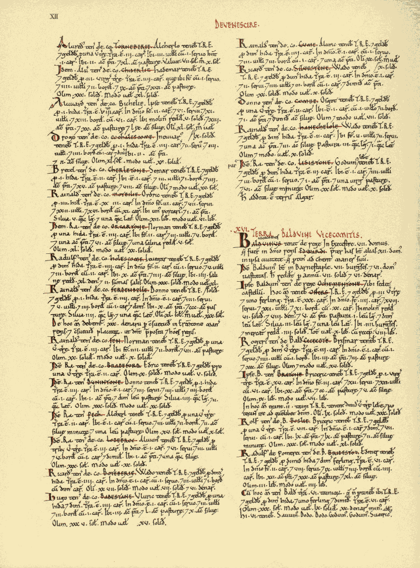 First folio of listing of 176 land holdings in Devonshire held by Baldwin the Sheriff (d.1090), Domesday Book, 1086. Starting half-way down column 2, listing his first 7 holdings, namely: 19 houses in Exeter 6 destroyed houses in Barnstaple Okehampton and its castle, Lifton hundred Chichacott, Lifton hundred Bratton Clovelly, Lifton hundred Boasley, Lifton hundred Bridestowe, Lifton hundred